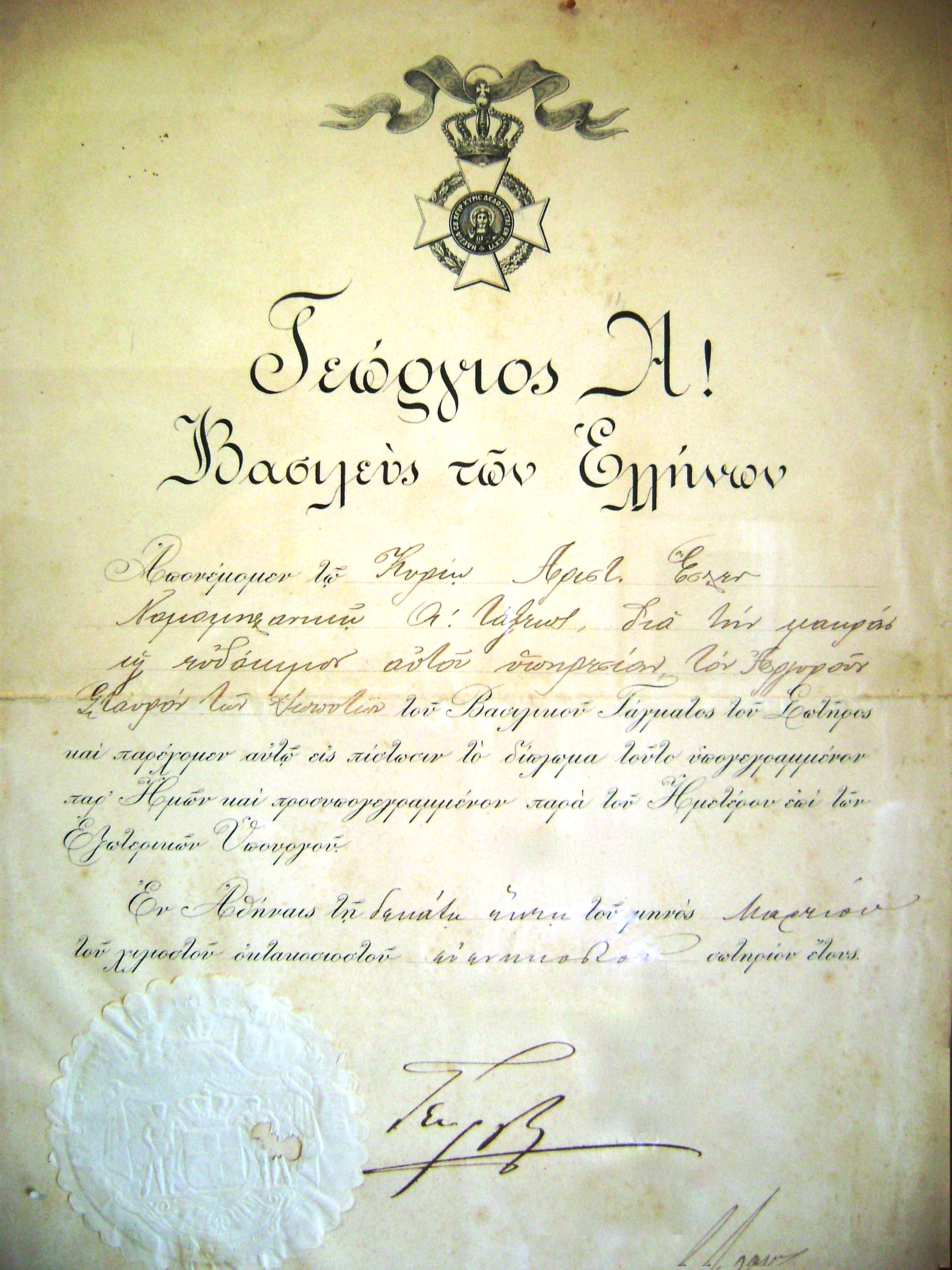 Document of award of the Silver Cross of the Royal Order of the Redeemer to Aristeides Esslin by King George I of Greece